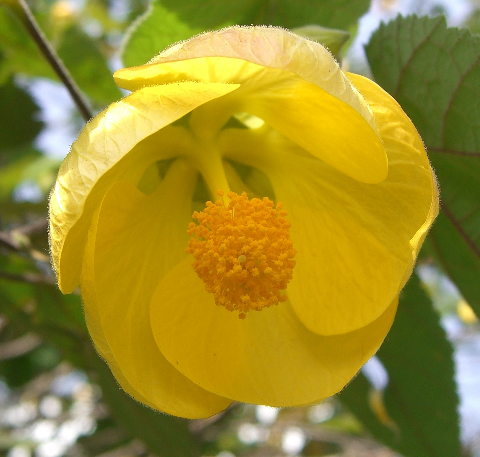 Please report references to .